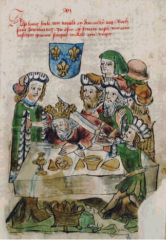 Charels III of Naples